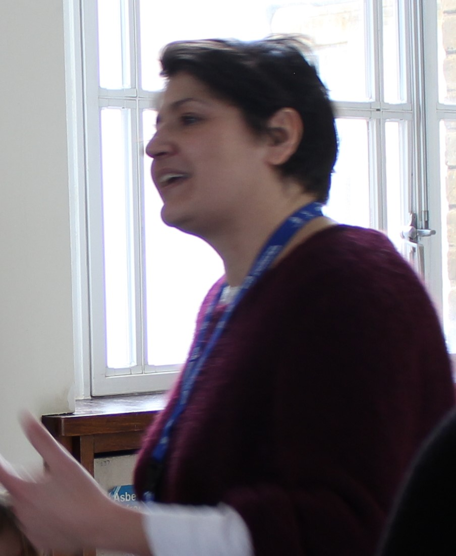 Sonia Contera speaking to a group of undergraduate women in physics at Oxford, March 2019.